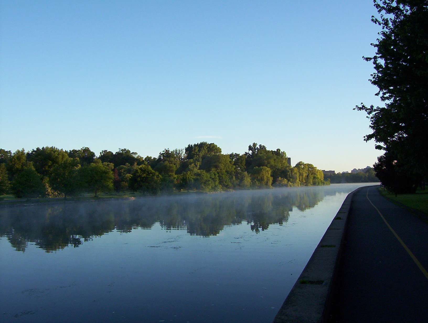 The Rideau Canal.